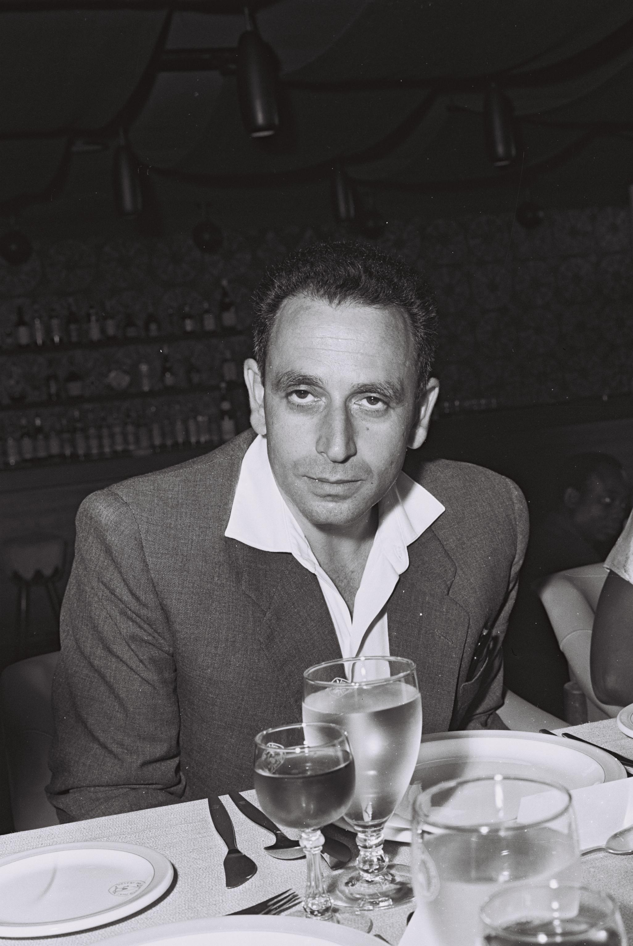 PORTRAIT, ELIAHU NAWI, MAYOR OF BEER SHEVA